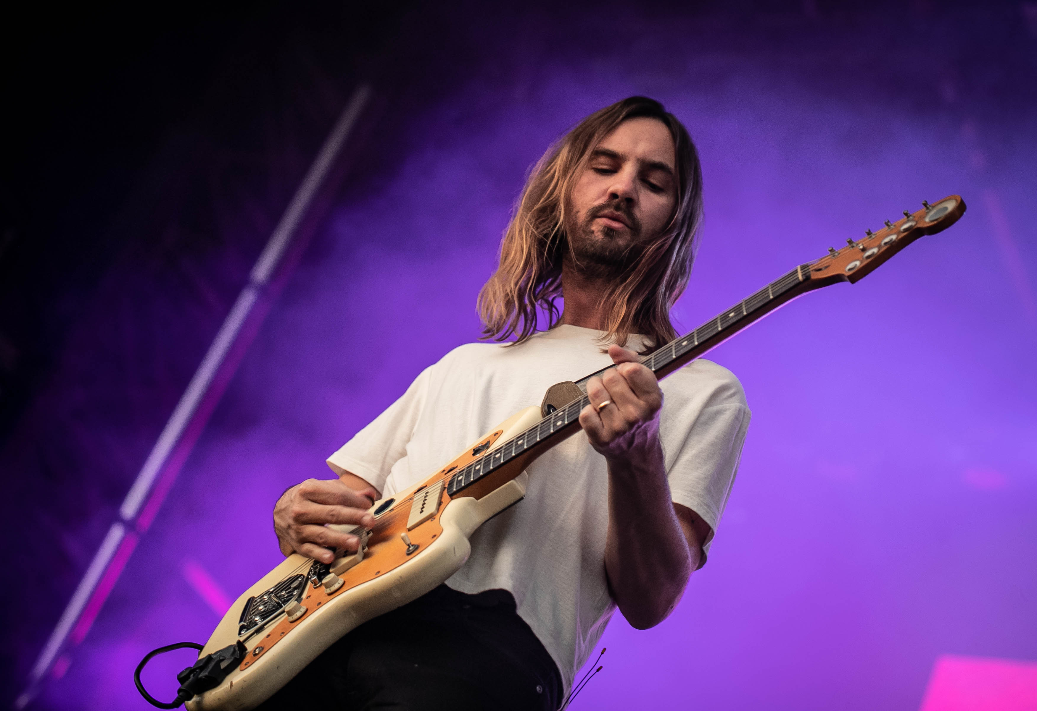 Tame Impala Surly Brewing in Minneapolis